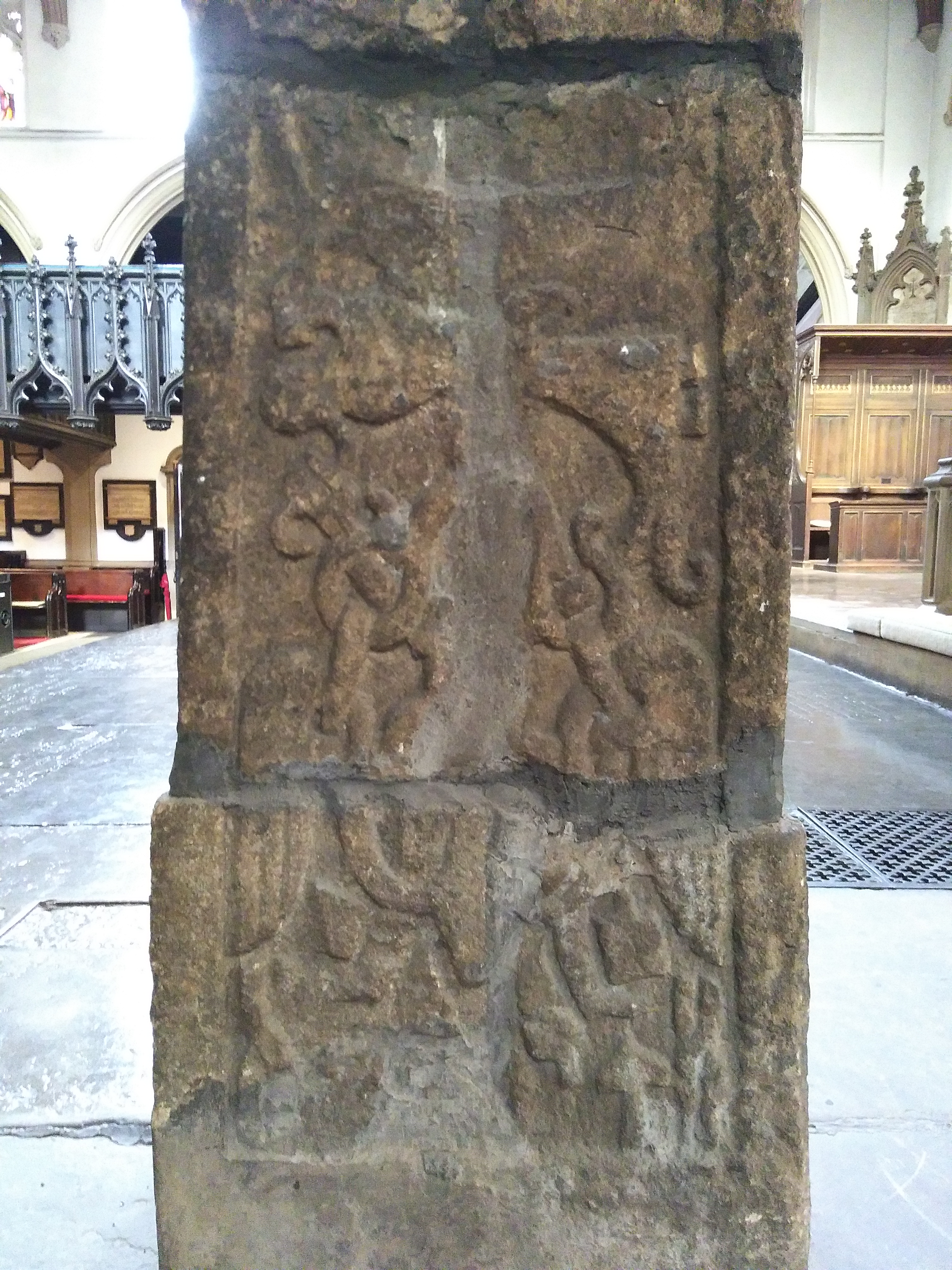 Leeds Cross panel Ciii, depicting Weland/Vǫlundr (below, strapped into wings, with tools at his feet) holding Beaduhild/Bǫðvildr (above, at a right angle to Weland). The bottom left quadrant is a modern reconstruction.